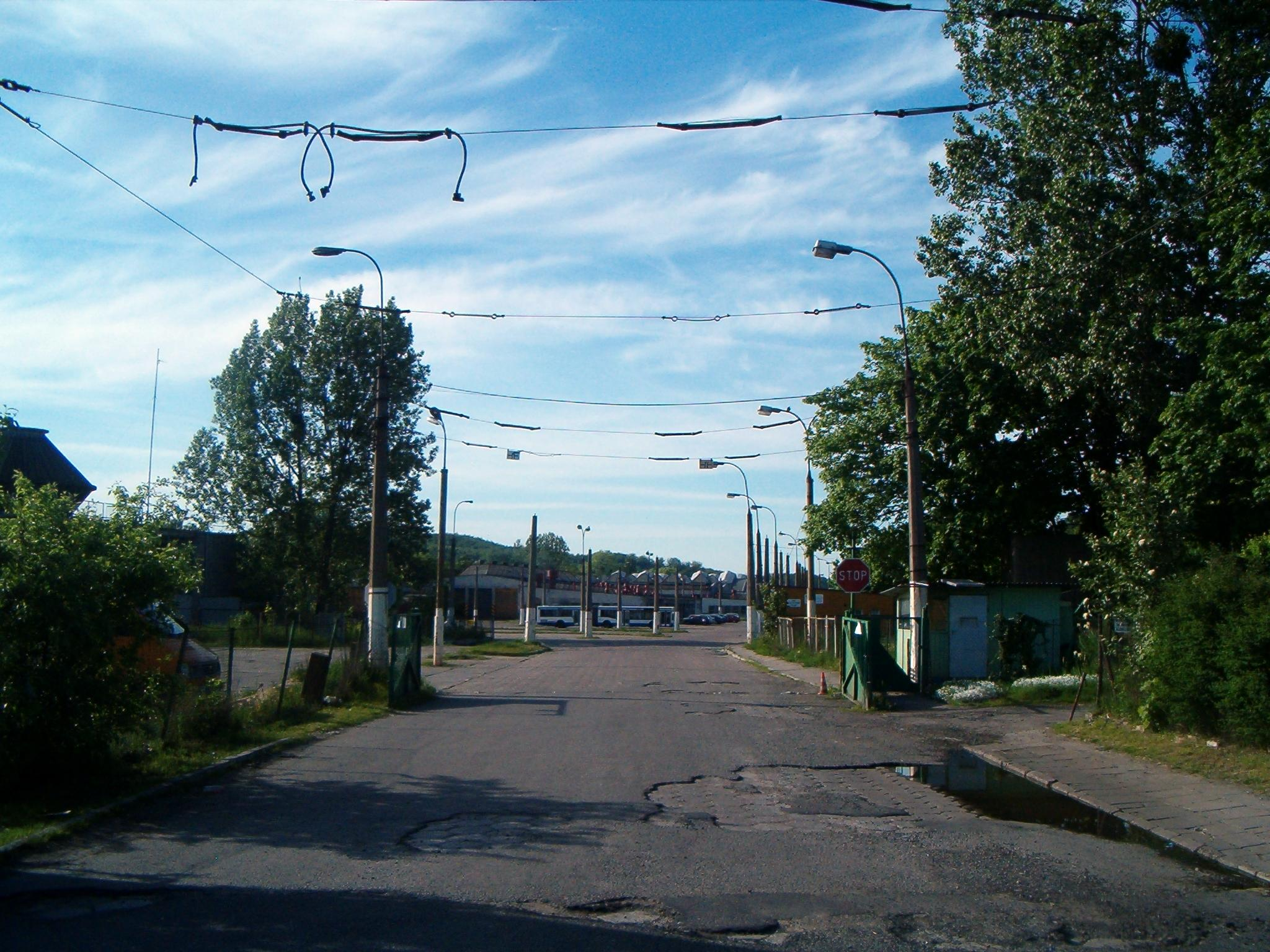 Place wherein was former trolley-bus depot in Gdynia. Localisation in the district Redłowo.